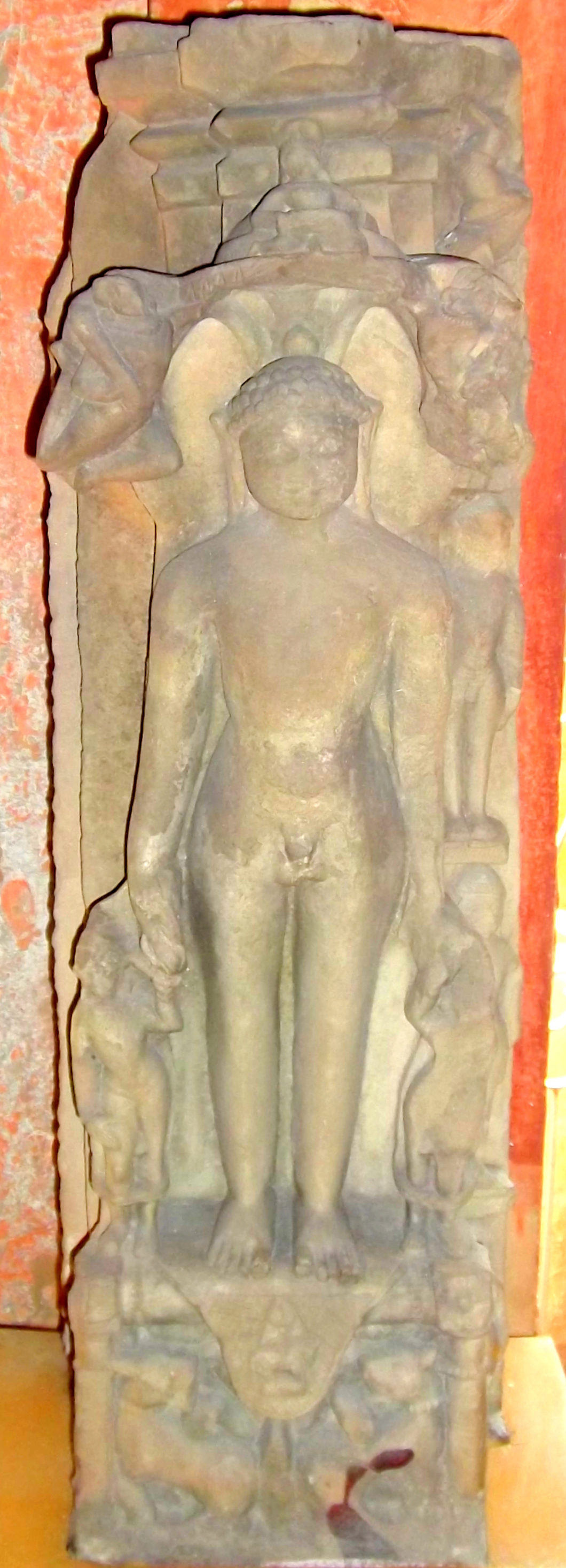 Image of Tirthankara Sambhavanatha at Gwalior Fort Museum